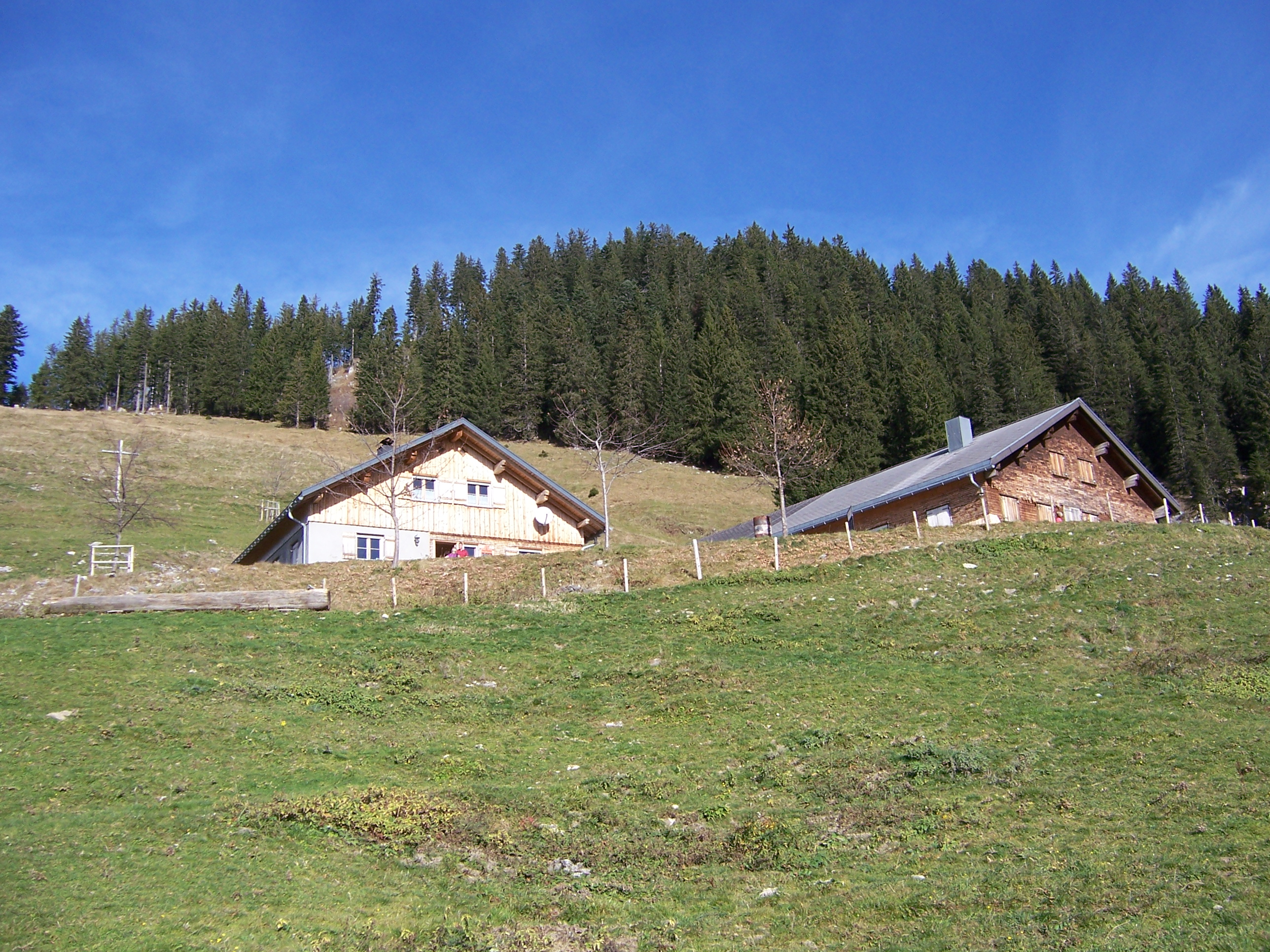 The Schönermannalpe in Vorarlberg, Austria. Picture taken from the south.